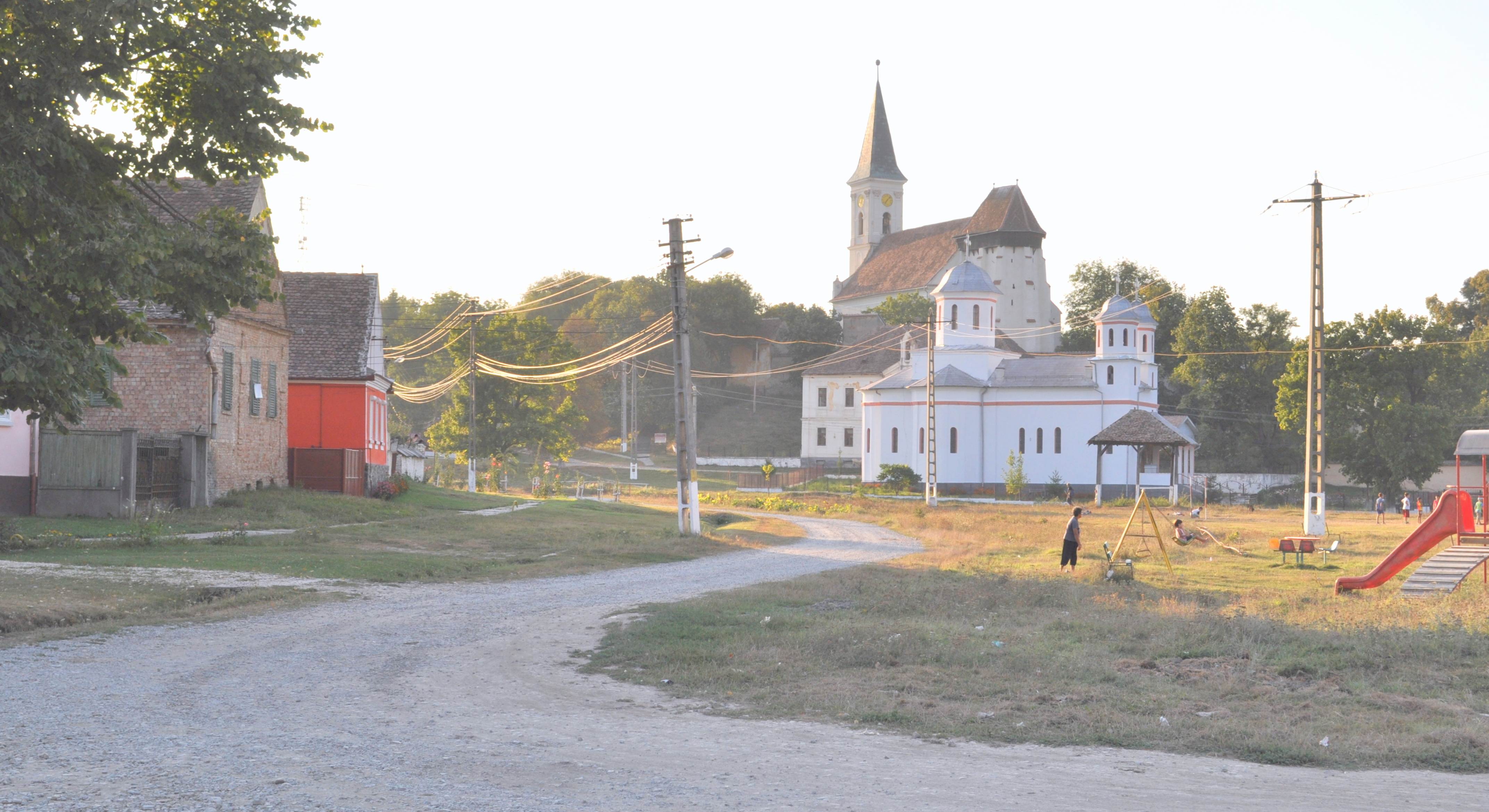 Saxon fortified church in Bălcaciu, Alba countyRomână: Biserica evanghelică fortificată din Bălcaciu, județul Alba